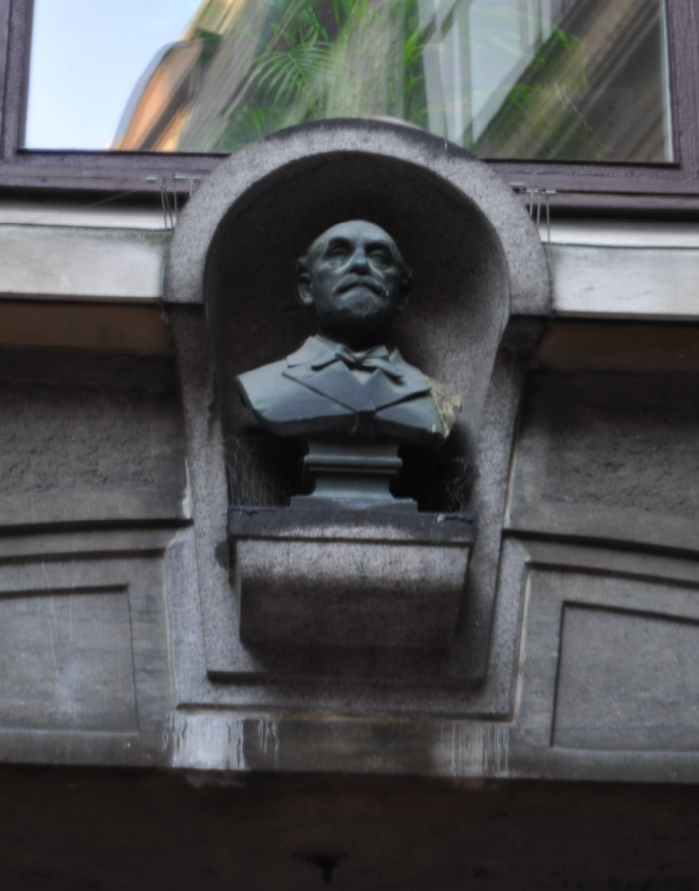 Jorcks passage, portrait of Reinholdt W. Jorck (1832-1902), december 2011.